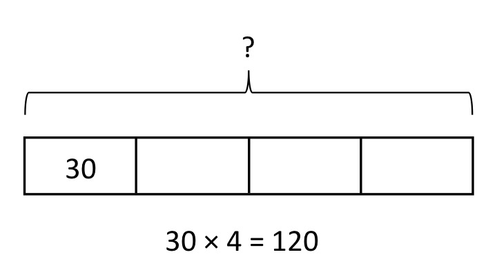 A part-whole model used to solve a multiplication problem. This pictorial approach is typically used as a problem-solving tool in Singapore math.